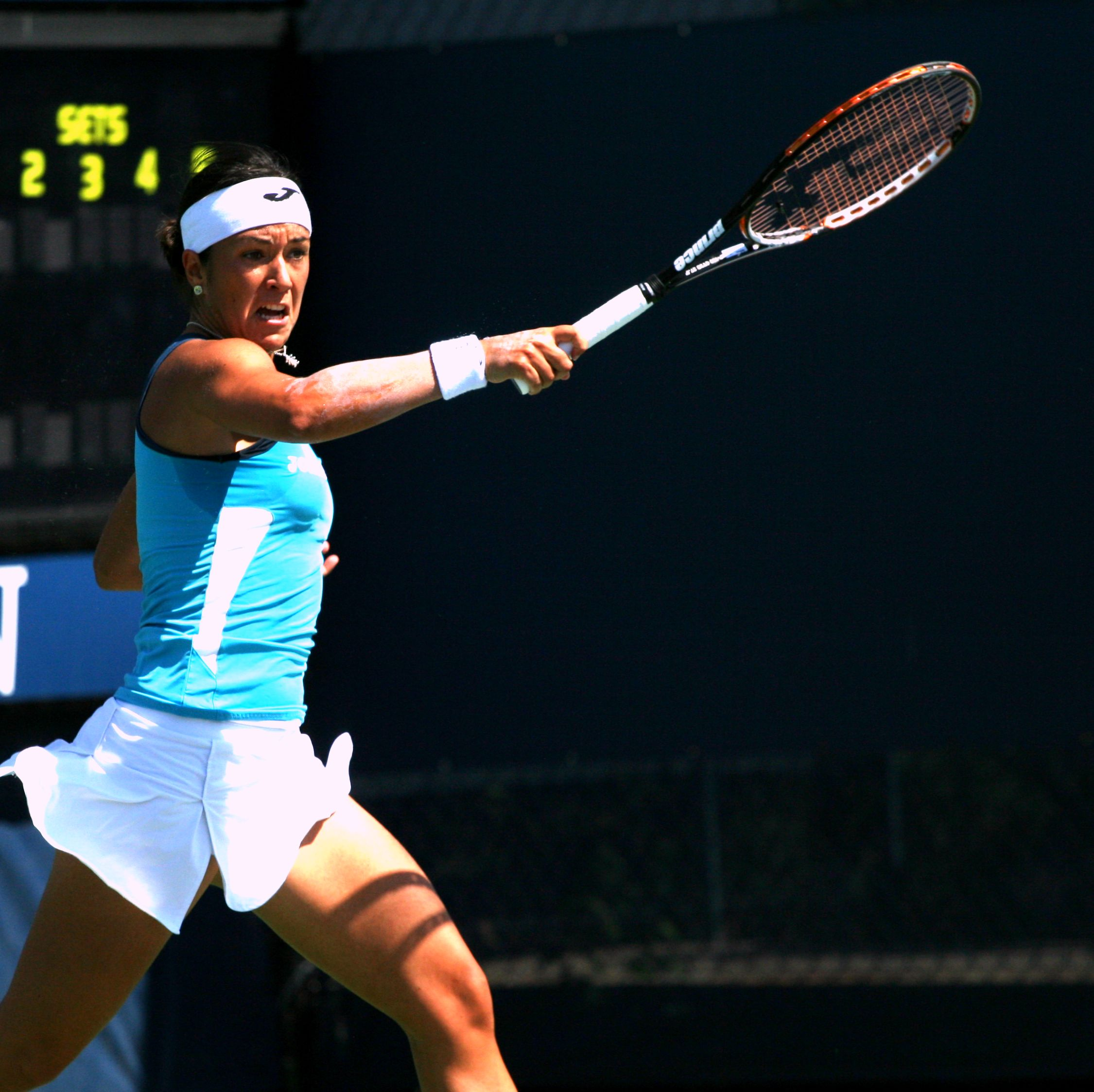 Silvia Soler-Epinosa at the 2011 U.S. Open Thursday, Sept. 1, 2011